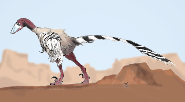 Graphite drawing of Achillobator giganticus by Matt Martyniuk.